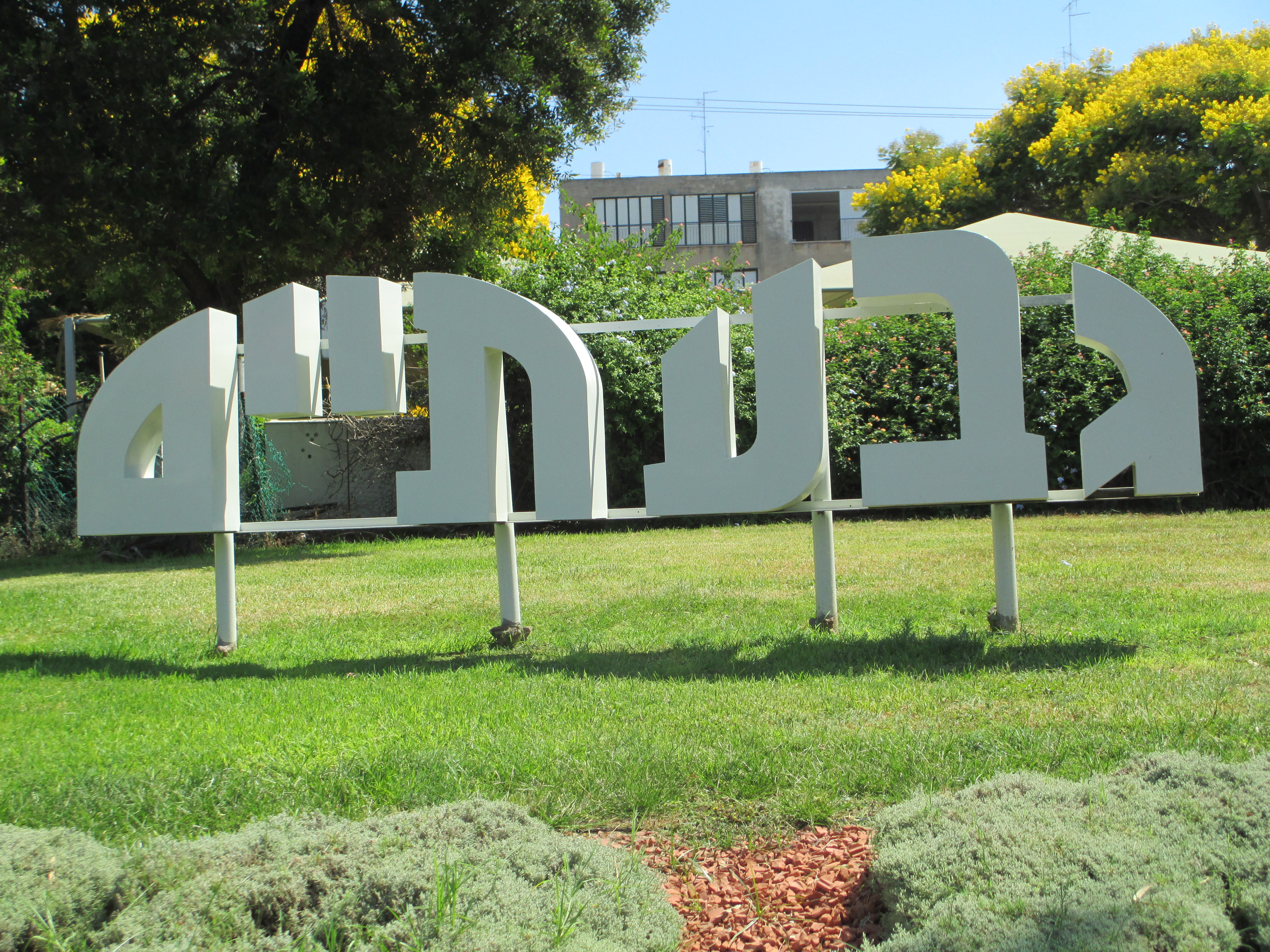 Entrance to Giv'atayim (two hills), Israel